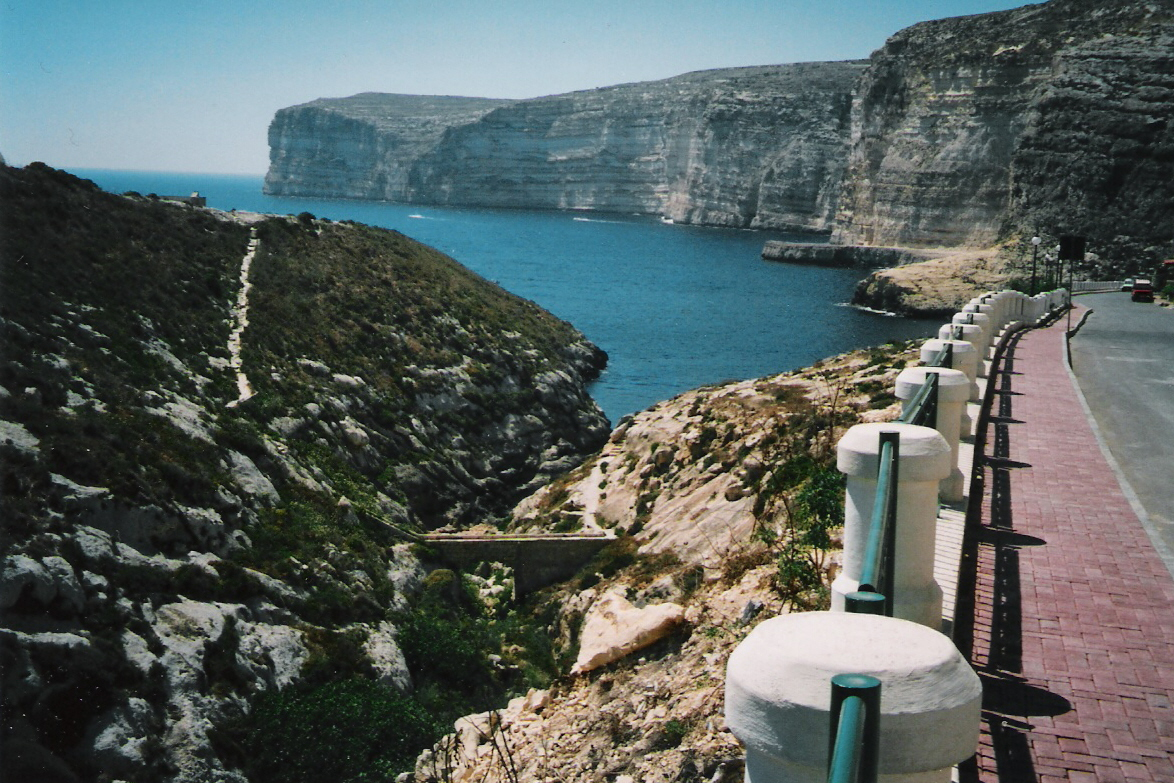 Own Photo; taken on Gozo, Mai 2001 by ERWEH